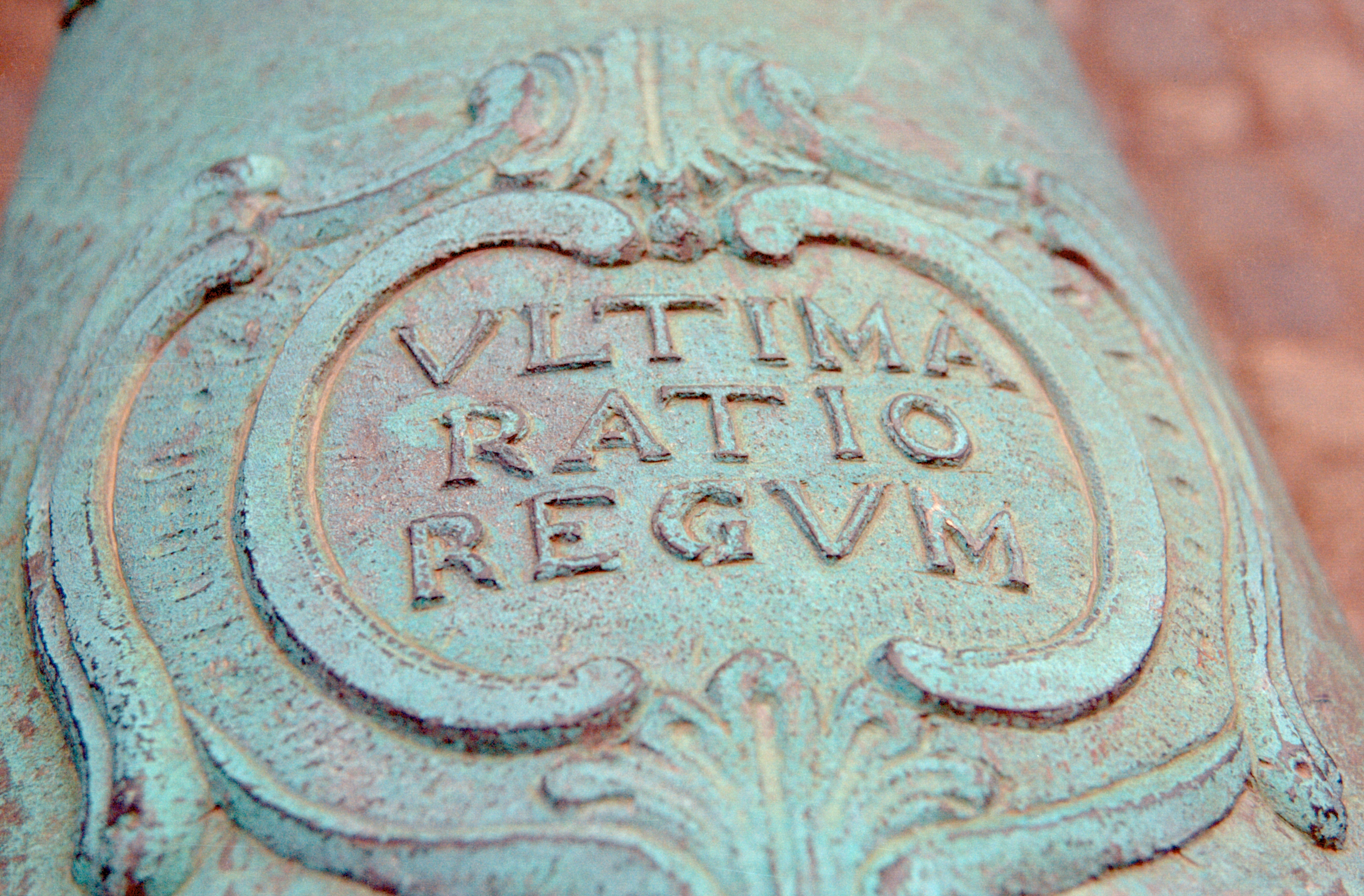 "Ultima Ratio Regum" ("The last argument of kings") inscribed on a cannon located outside the Museum of Military History, Vienna, Austria. Cannon is presumed to be captured, originally French.